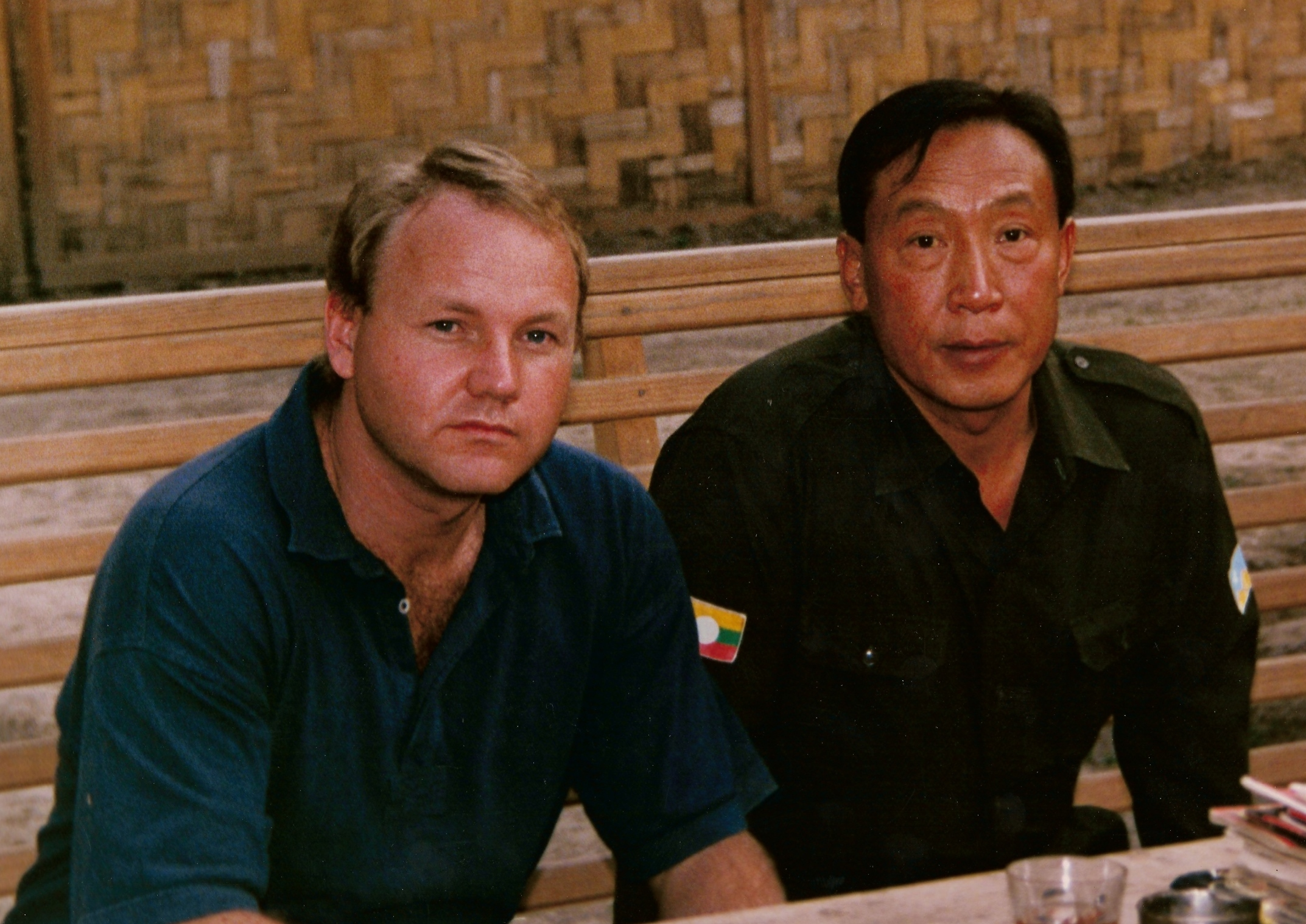 Heroin warlord Khun Sa with Australian journalist Stephen Rice, pictured in April 1988 at Khun Sa's jungle headquarters inside Burma, in South East Asia's Golden Triangle.